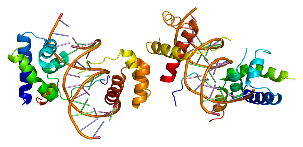 Structure of the POU2F1 protein. Based on PyMOL rendering of PDB 1cqt.